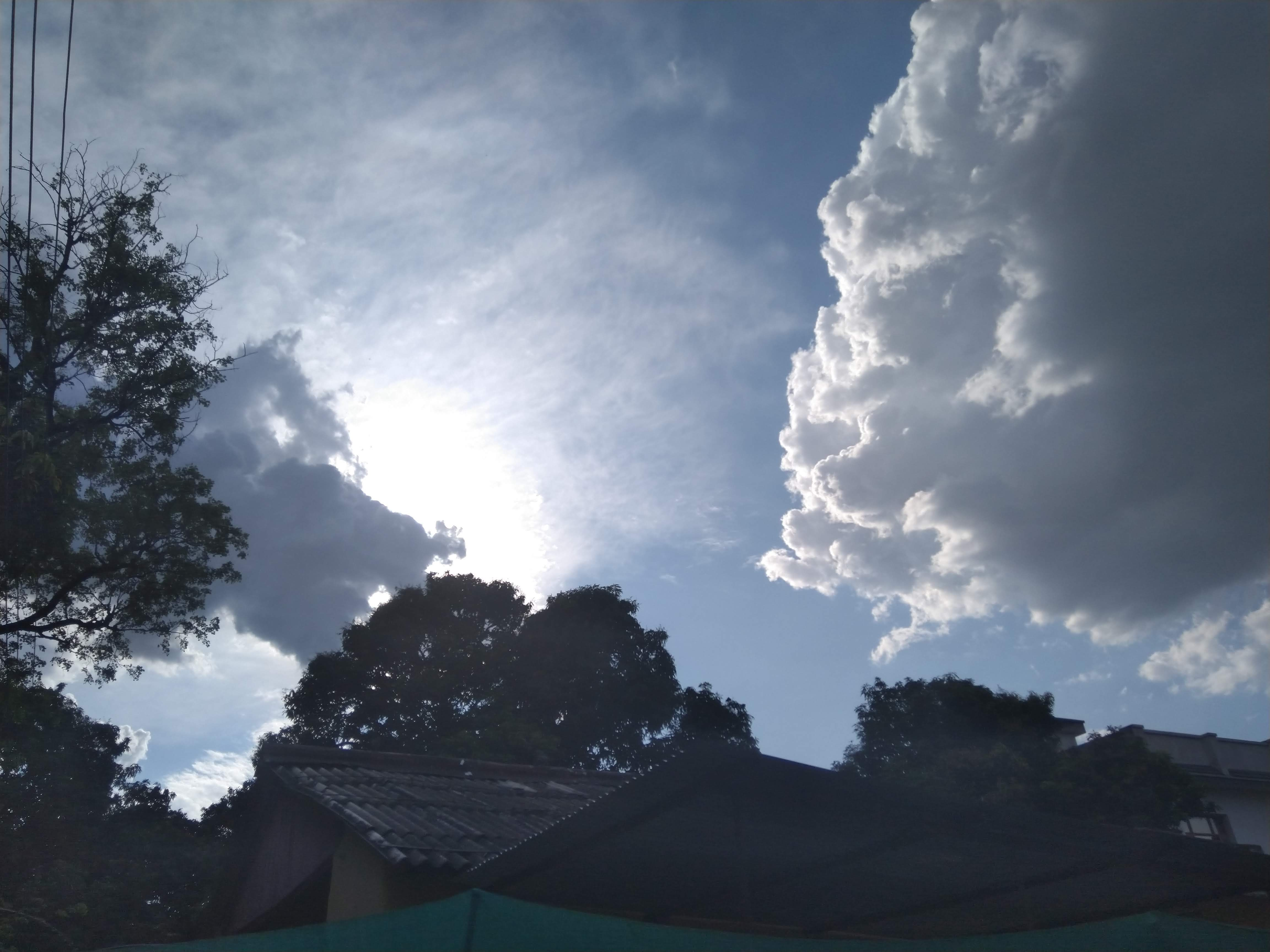 This image depicts the movement of clouds to cover the sun and the blue sky with their White/Grey blanket